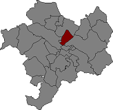 Location of el Pla del Penedès in Alt Penedès